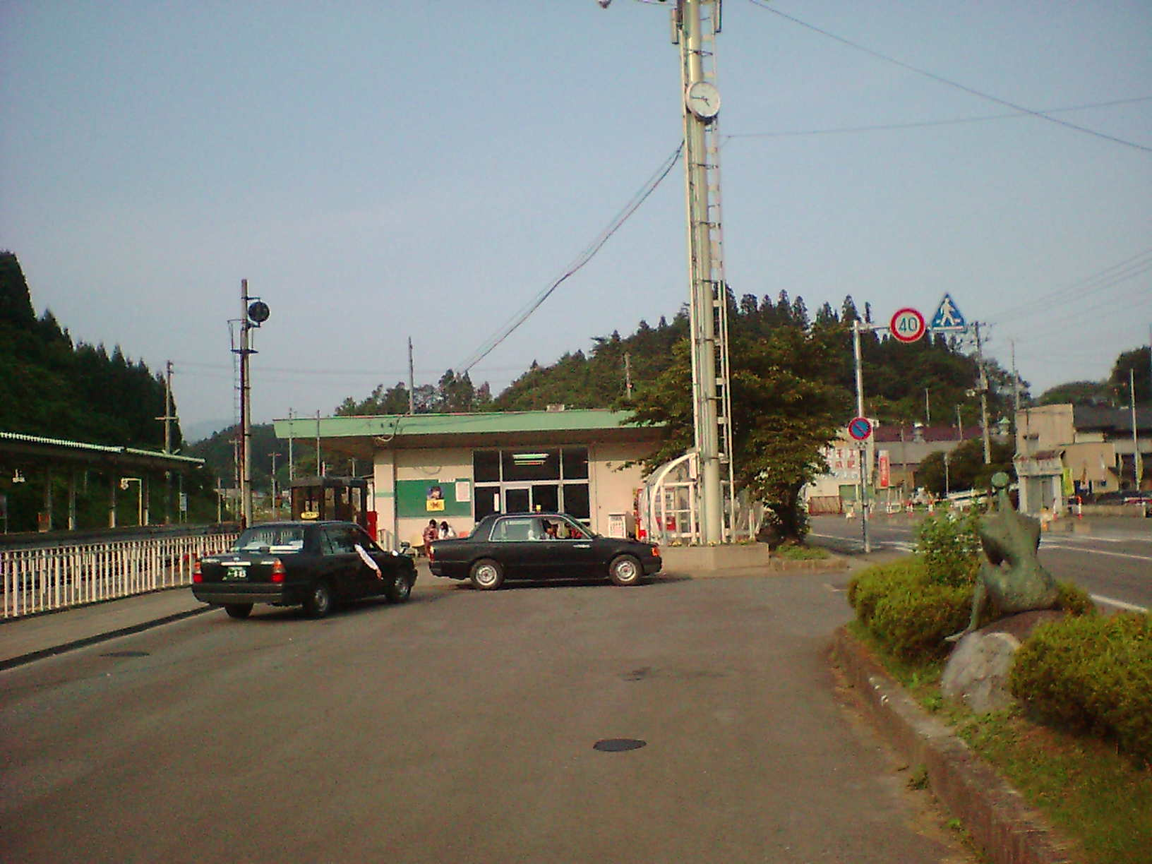 Senmaya train station in Senmaya, Iwate.